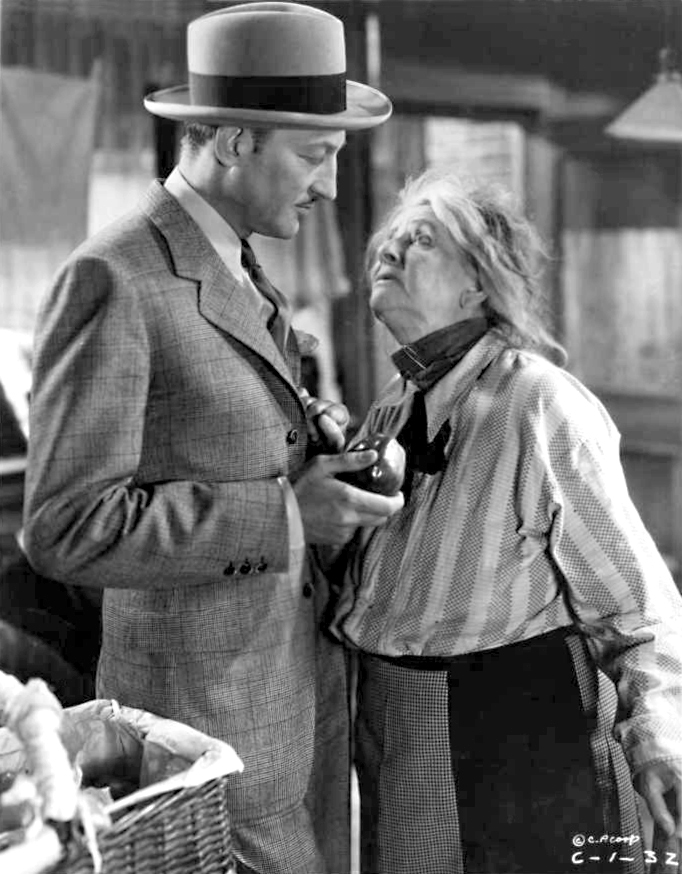 Promotional photograph of the film Lady for a Day starring Warren William and May Robson